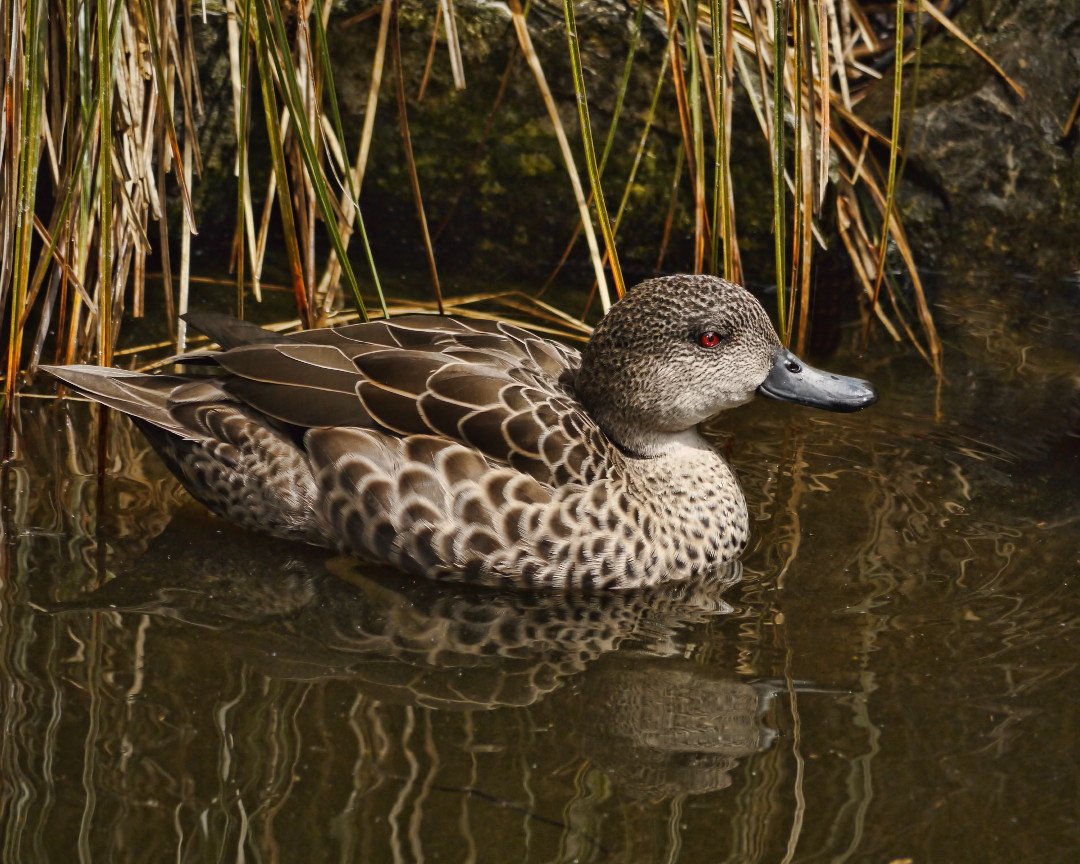 A Grey Teal swimming at Nga Manu Nature Reserve, Waikanae, New Zealand.